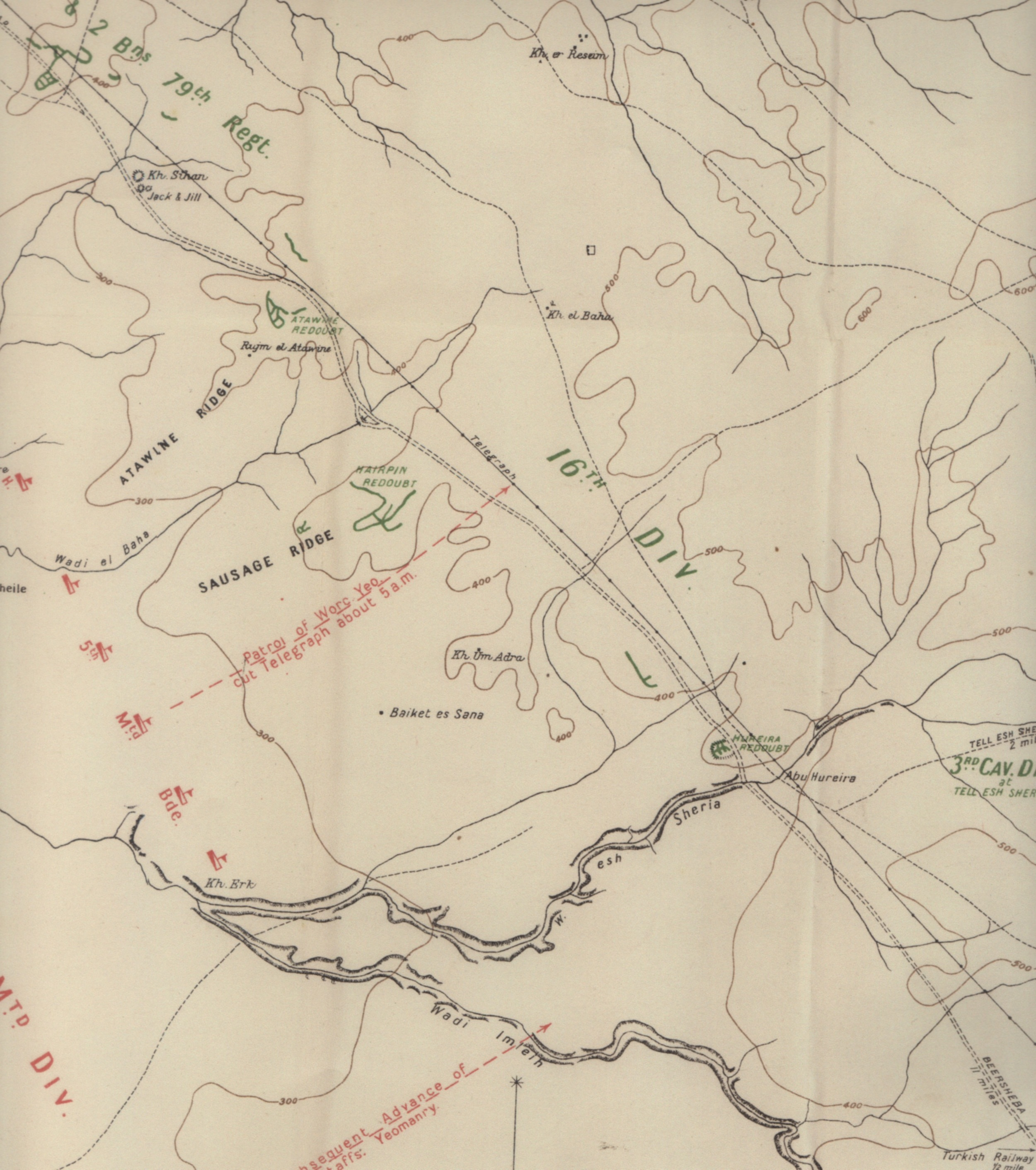 Falls Map 14 Second Battle of Gaza 17 April 1917 Other information Crown copyright